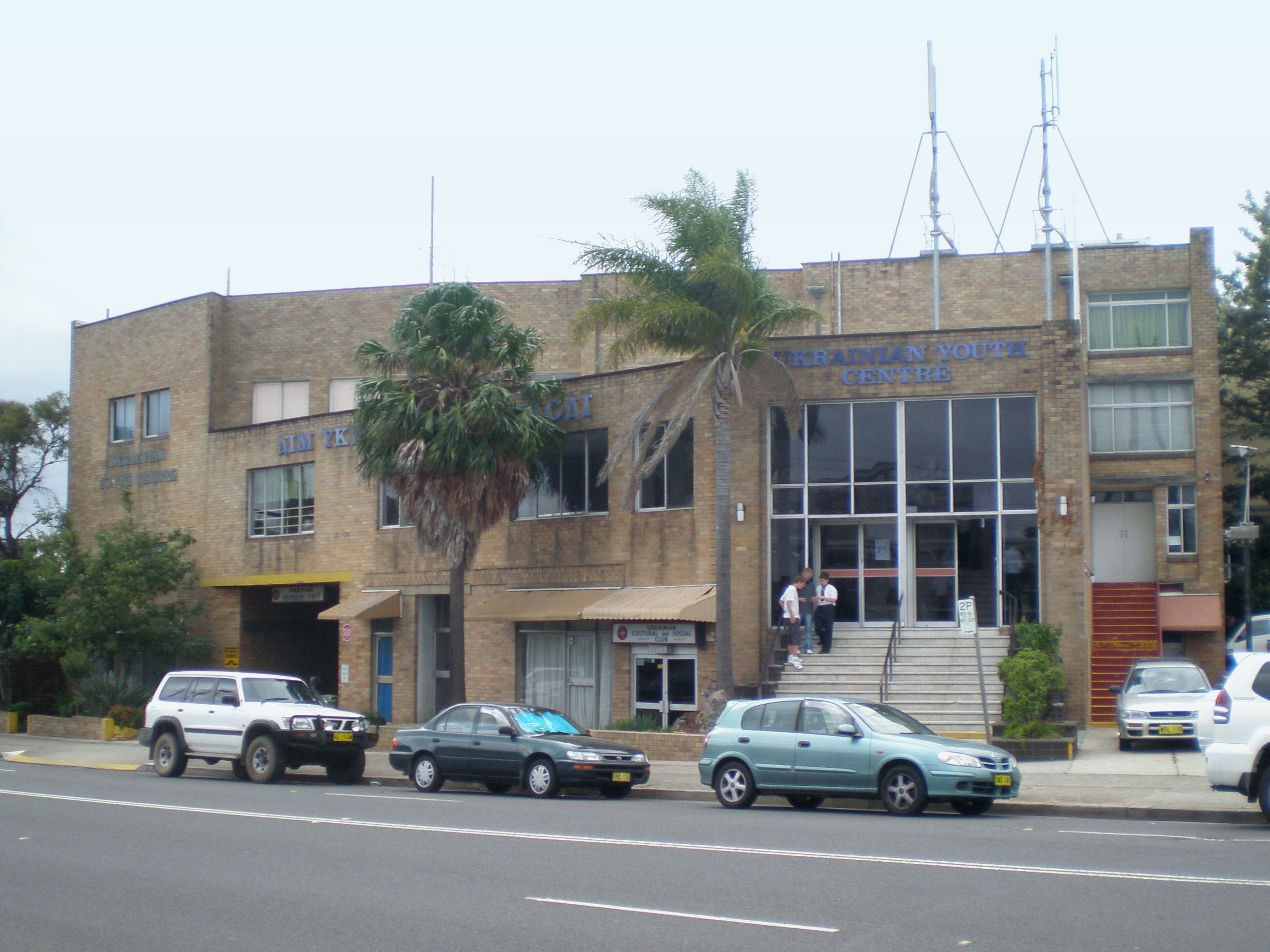 The former Ukrainian Youth Centre in Lidcombe, Australia